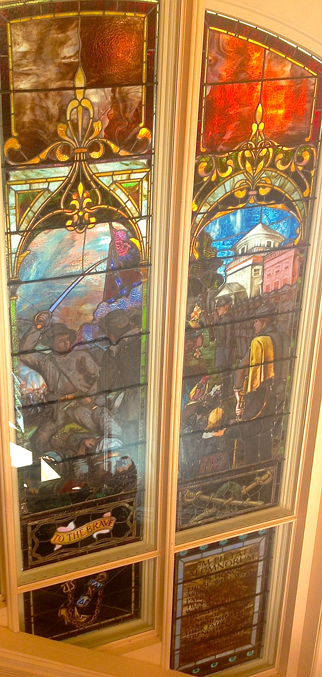 The University Grays was a regiment made of the entirety of the male population at the University of Mississippi.